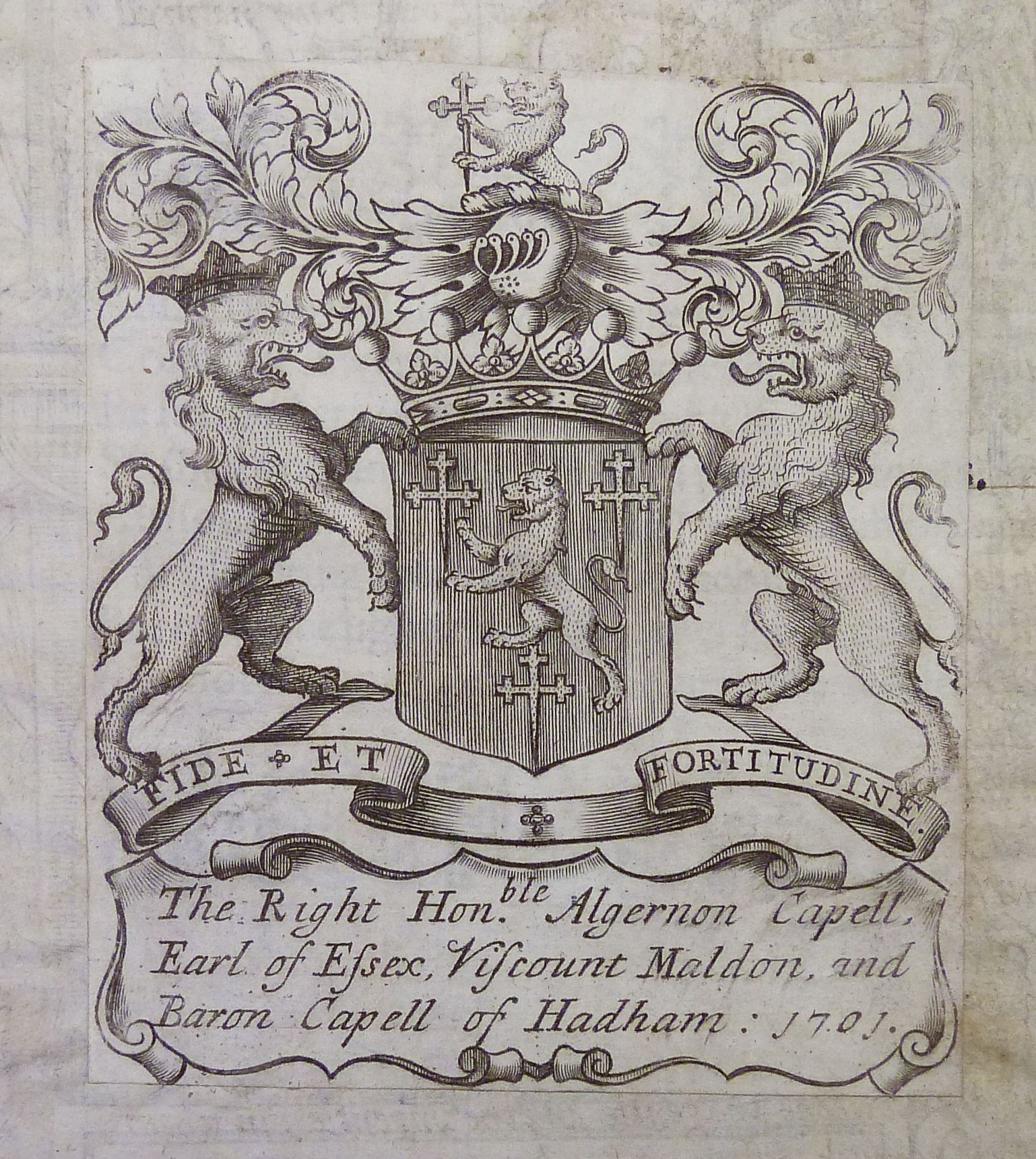 Armorial bookplate of "The Right Hon.ble Algernon Capell, Earl of Essex, Viscount Maldon, and Baron Capell of Hadham", dated 1701.